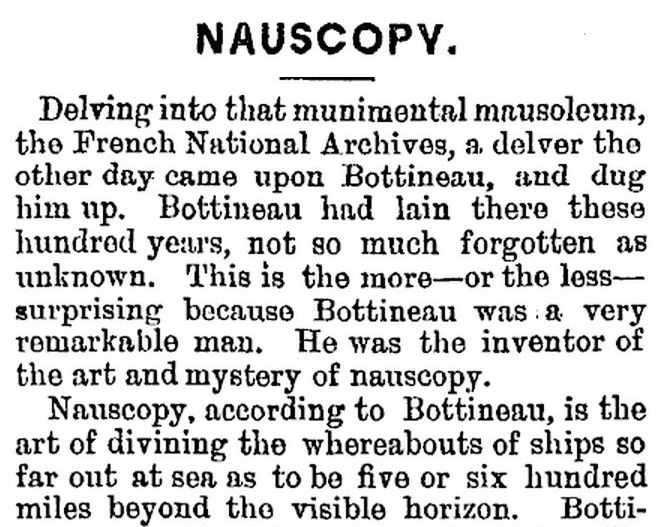 First page of New Zealand files - Star, Issue 5961, 28 August 1897